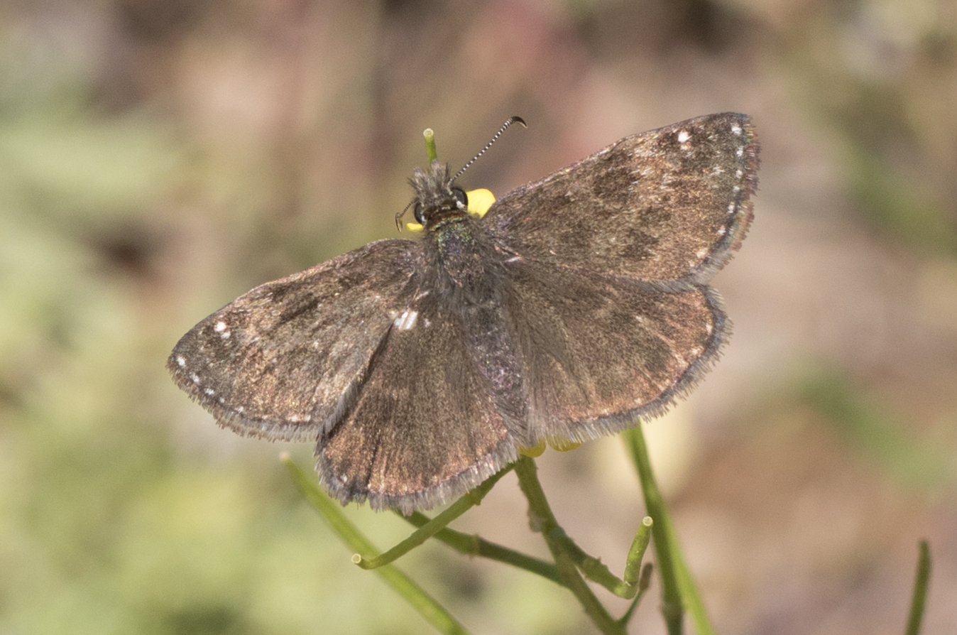 Dingy Skipper (Erynnis tages). Cöbük Forest, Saimbeyli - Adana, Turkey.